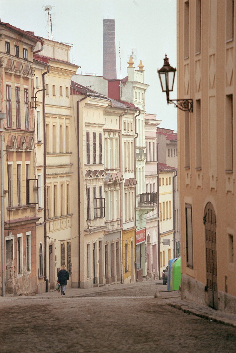 self taken picture, taken in early 2005 street close to the market place of Broumov